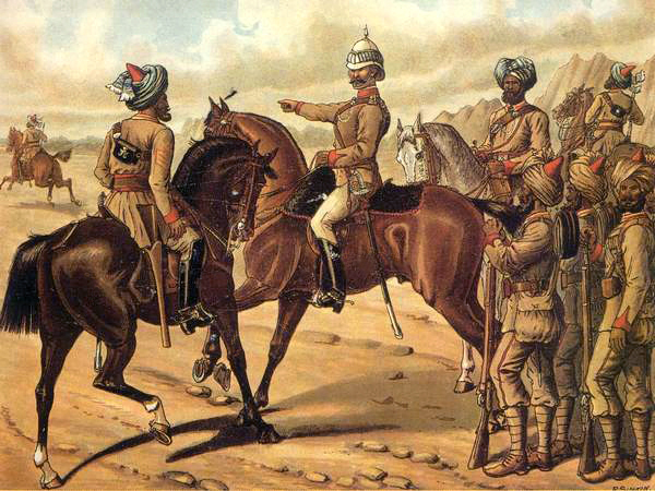 The Corps of Guides (Cavalry and Infantry) published in 1891.